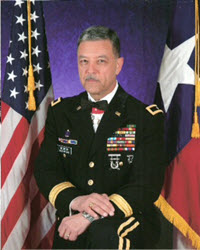 Major General Bodisch